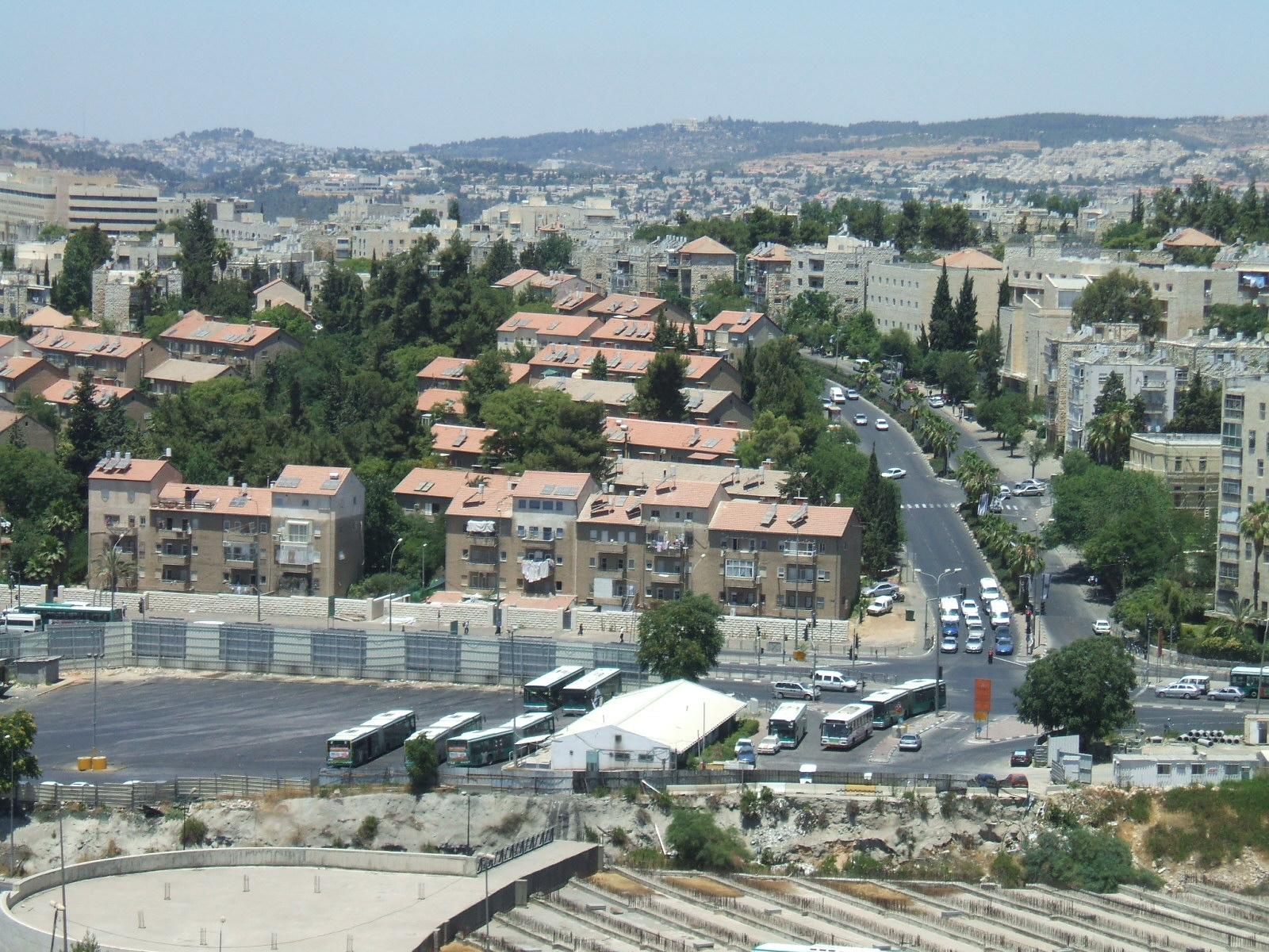 "Kiryat Moshe" neighbourhood in Jerusalem, as seen from Crowne Plaza hotel